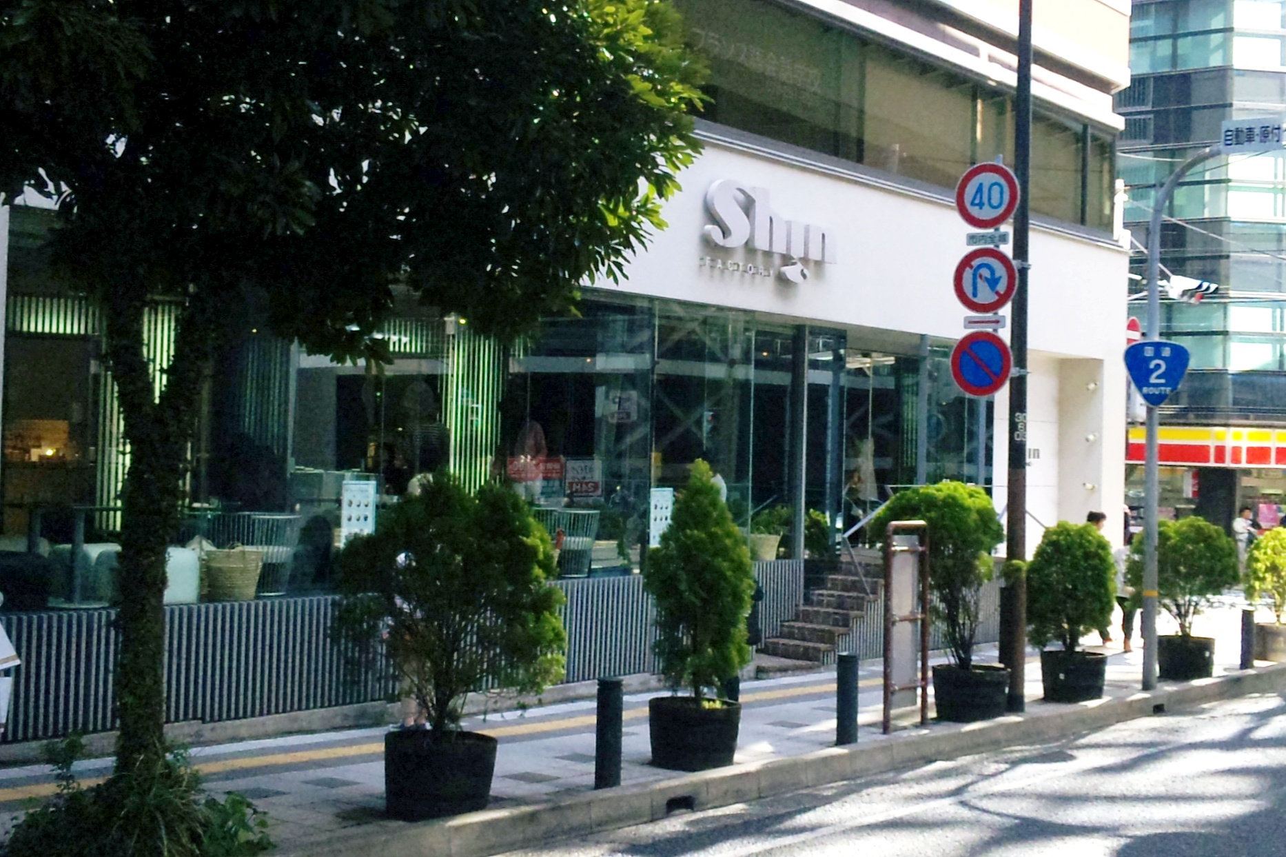 2015-04-11 Sincerus Co., Ltd Gaika gaikan 3